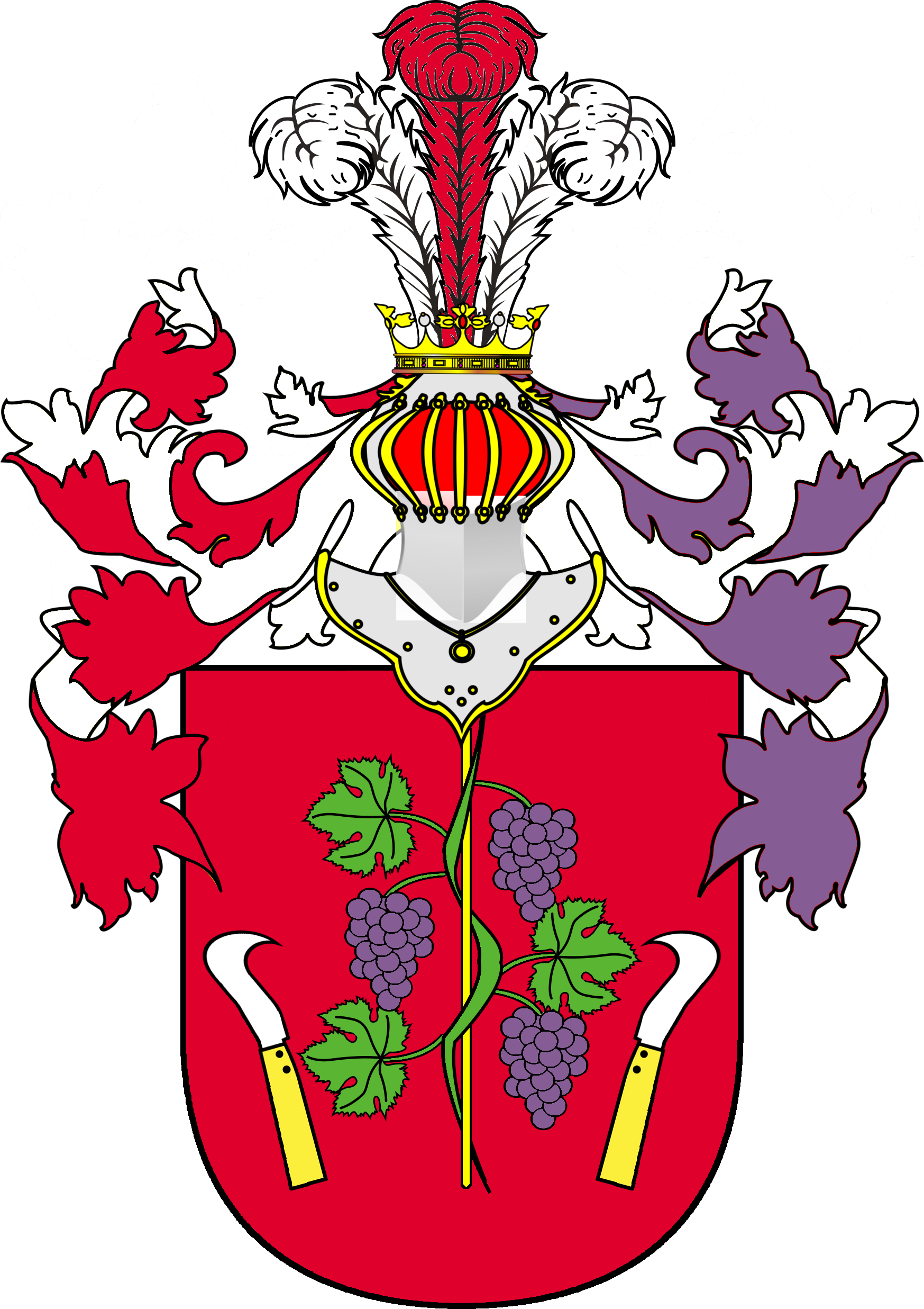 Coat of arms of the von Fragstein / Larisch family.